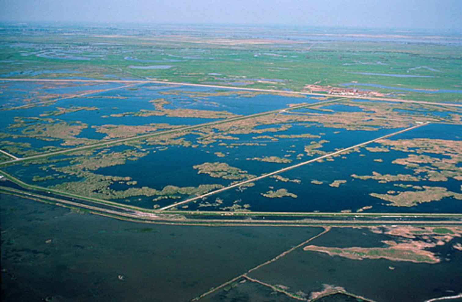 Image title: Evaporation ponds in the former Kesterson National Wildlife Refuge, California Image from Public domain images website